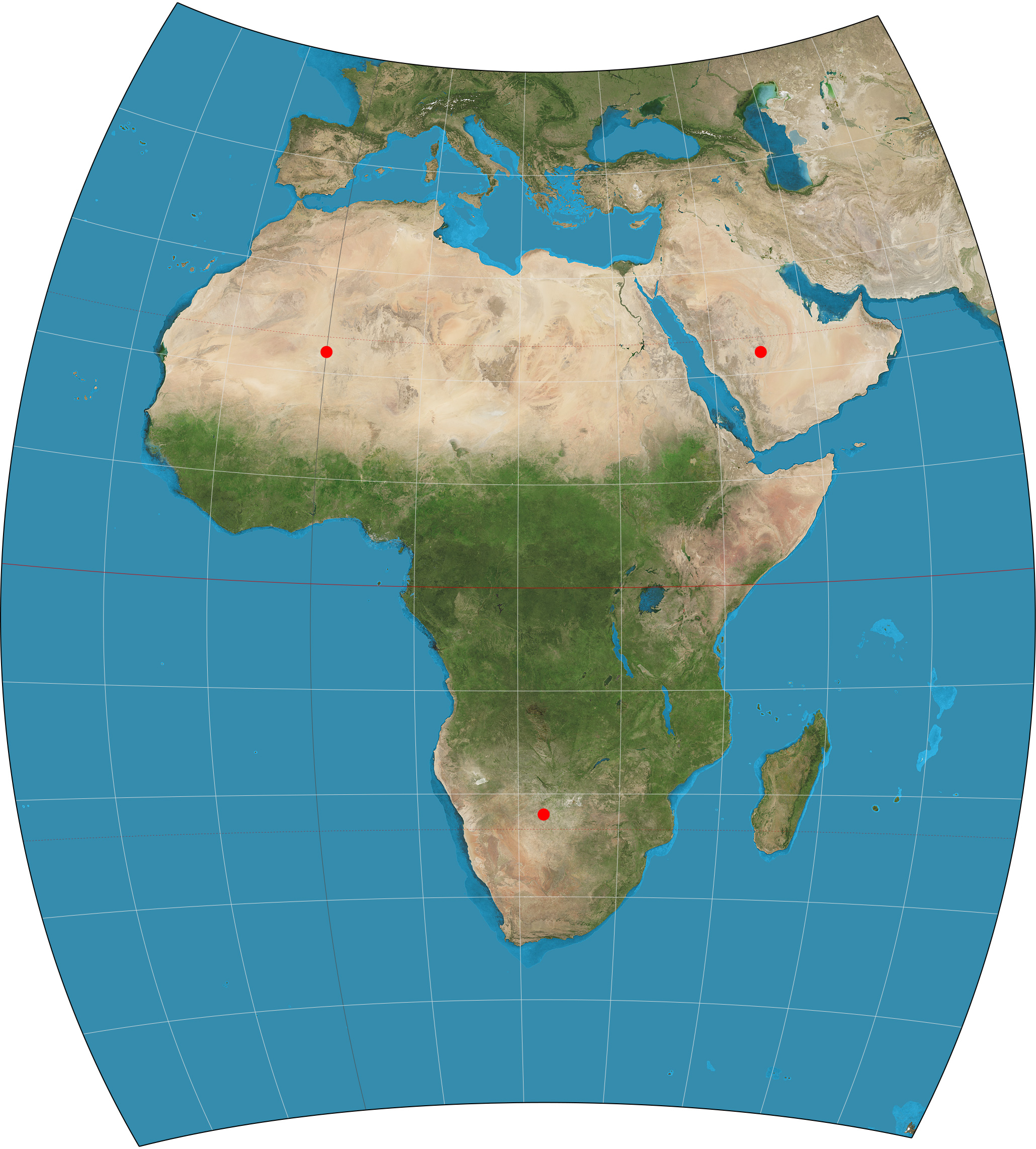 Africa on Chamberlin trimetric projection. 10° graticule, anchor points at (22°N, 0°), (22°N, 45°E), and (22°S, 22°30'E). Imagery is a derivative of NASA’s Blue Marble summer month composite with oceans lightened to enhance legibility and contrast. Image created with the Geocart map projection software.